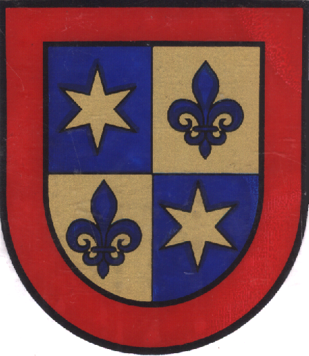 Coat of family Lopes